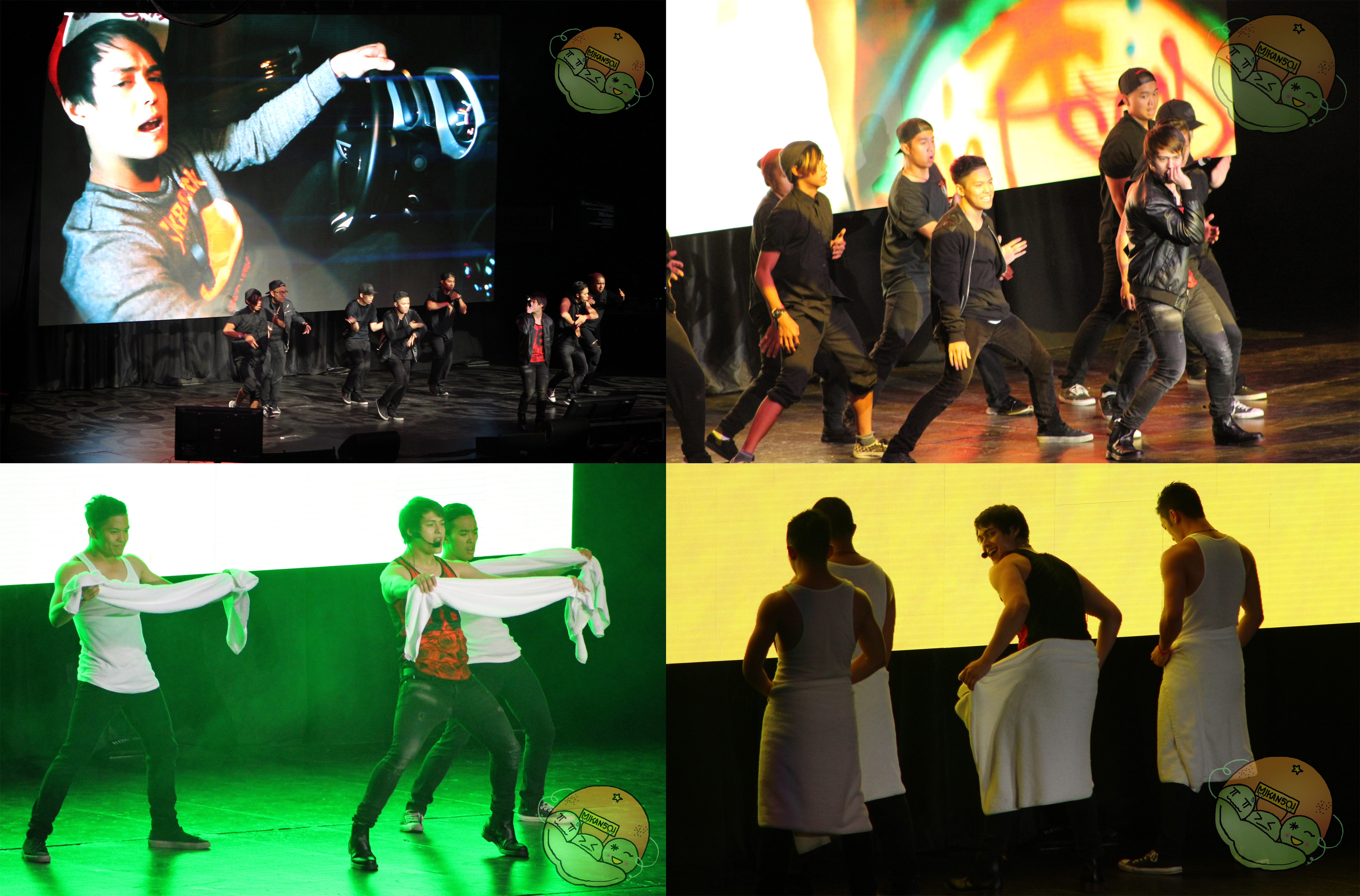 Enrique Gil's performances during ABS-CBN's concert tour "One Kapamilya Go" in Toronto, Ontario on June 21, 2014